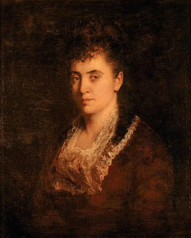 Portrait of Amalia Lanterer-Averof